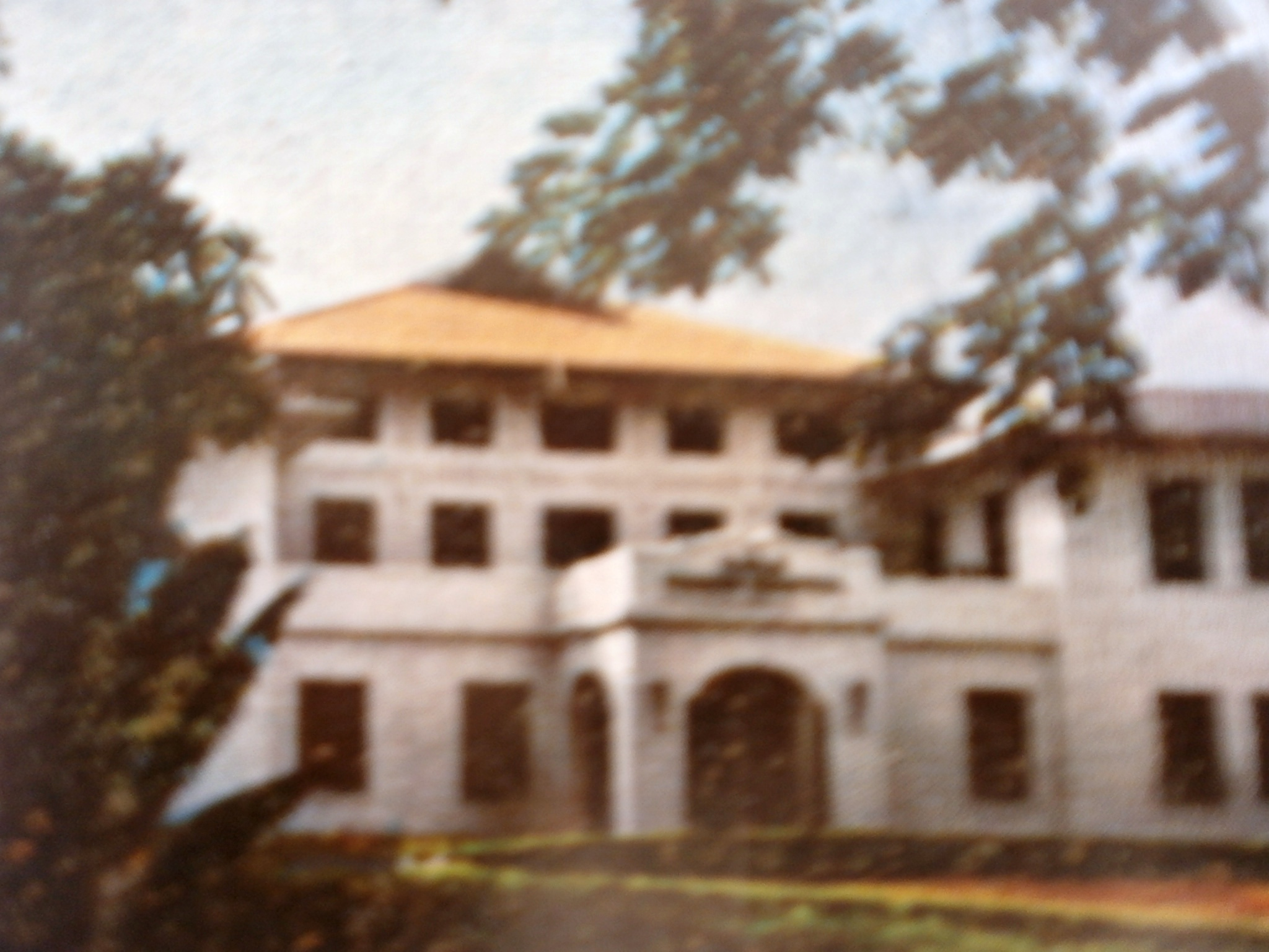 Iloilo Mision Hospital Main Hall